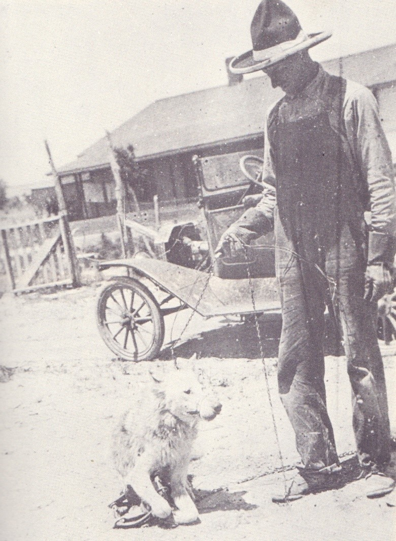 "Three Toes" of Thatcher Colorado (1923).